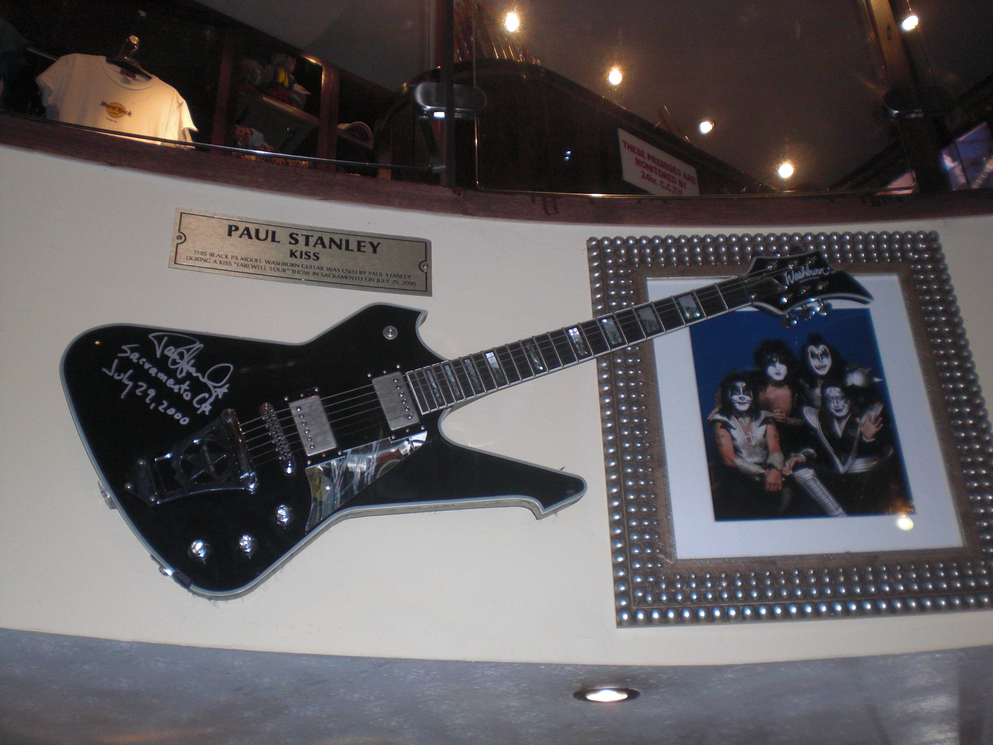 Hard Rock Café Dublin - Paul Stanley's (KISS) guitar